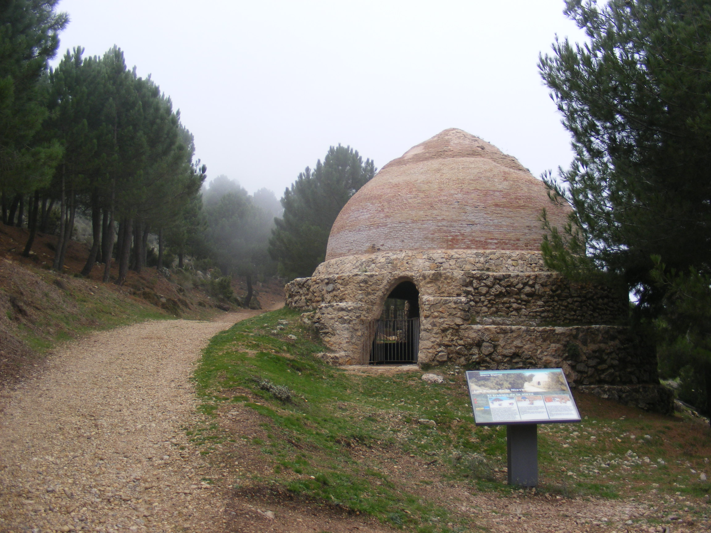 Snow well in Cartagena